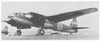 Period Japanese photo circa WW2, source and author unknown.